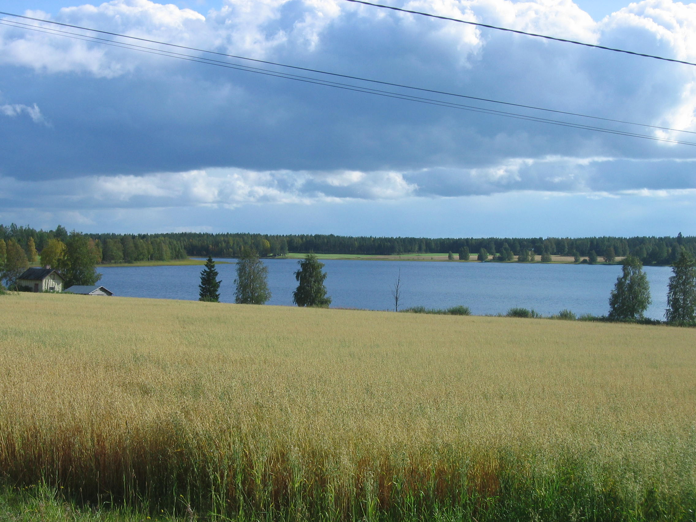 The lake Särkijärvi in Utajärvi, Finland.